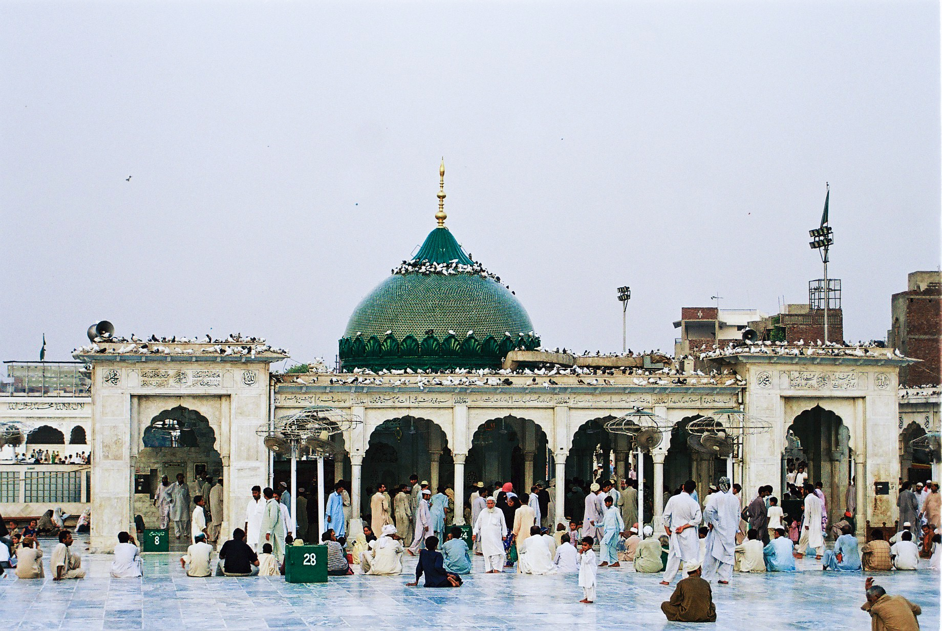 Data Durbar Complex This is a photo of a monument in Pakistan identified as the PB-P-105